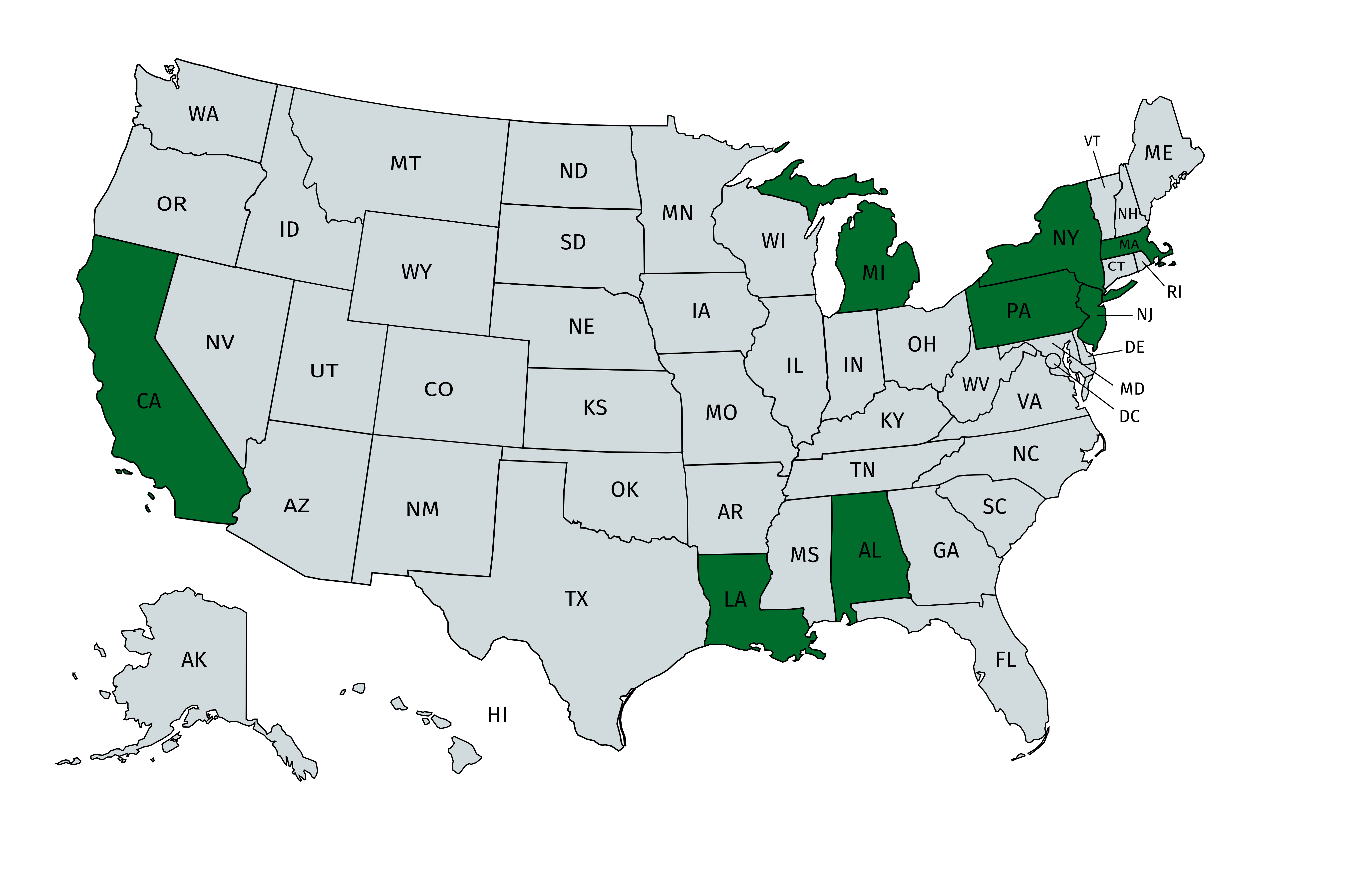 Map showing states represented at the 1955 Little League World Series, which was held from August 23 to August 26 in Williamsport, Pennsylvania.